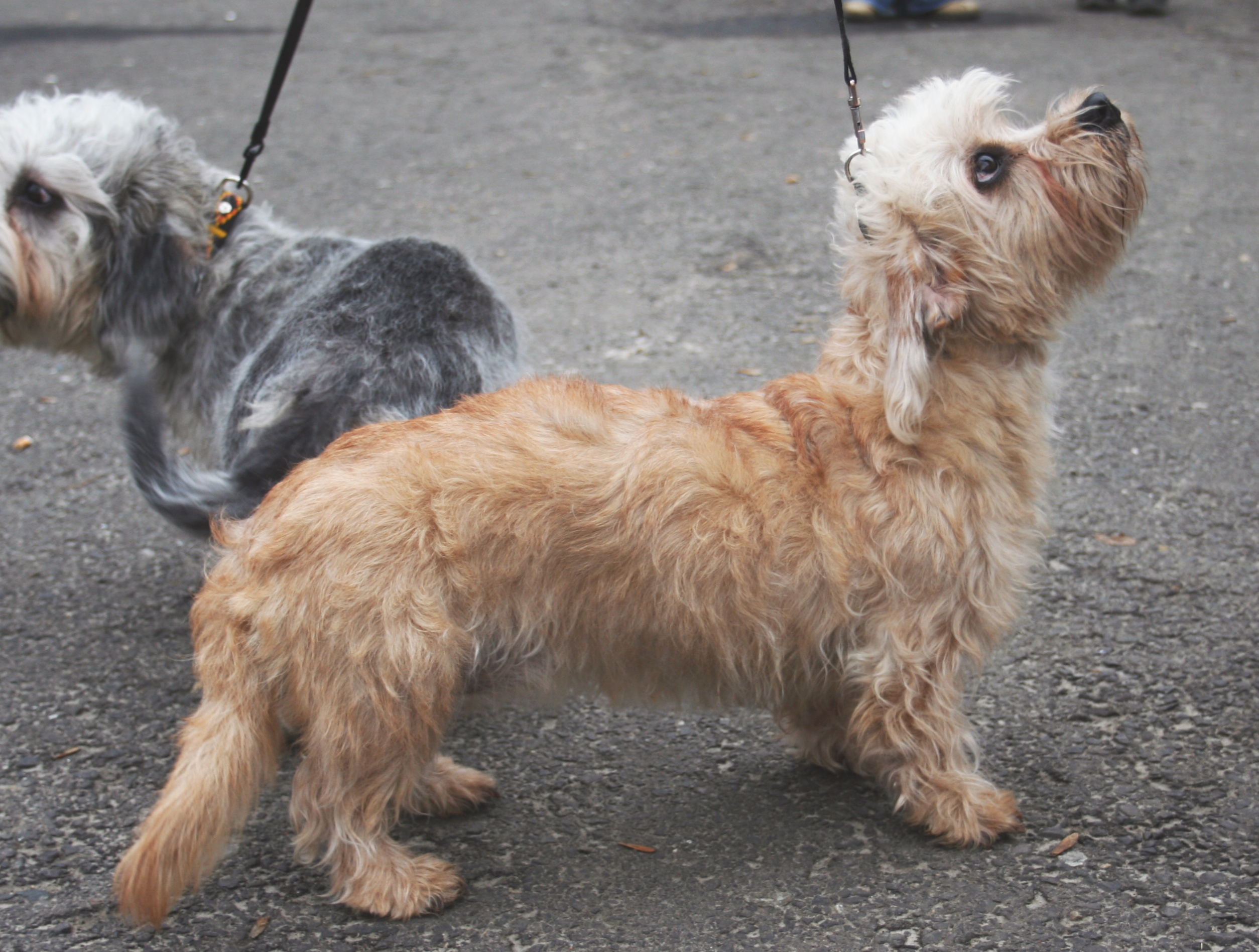 The female - Dandie Dinmont Terrier during the international dogs show in Katowice, Poland. The bitch comes from the kennel "Canis Terra"